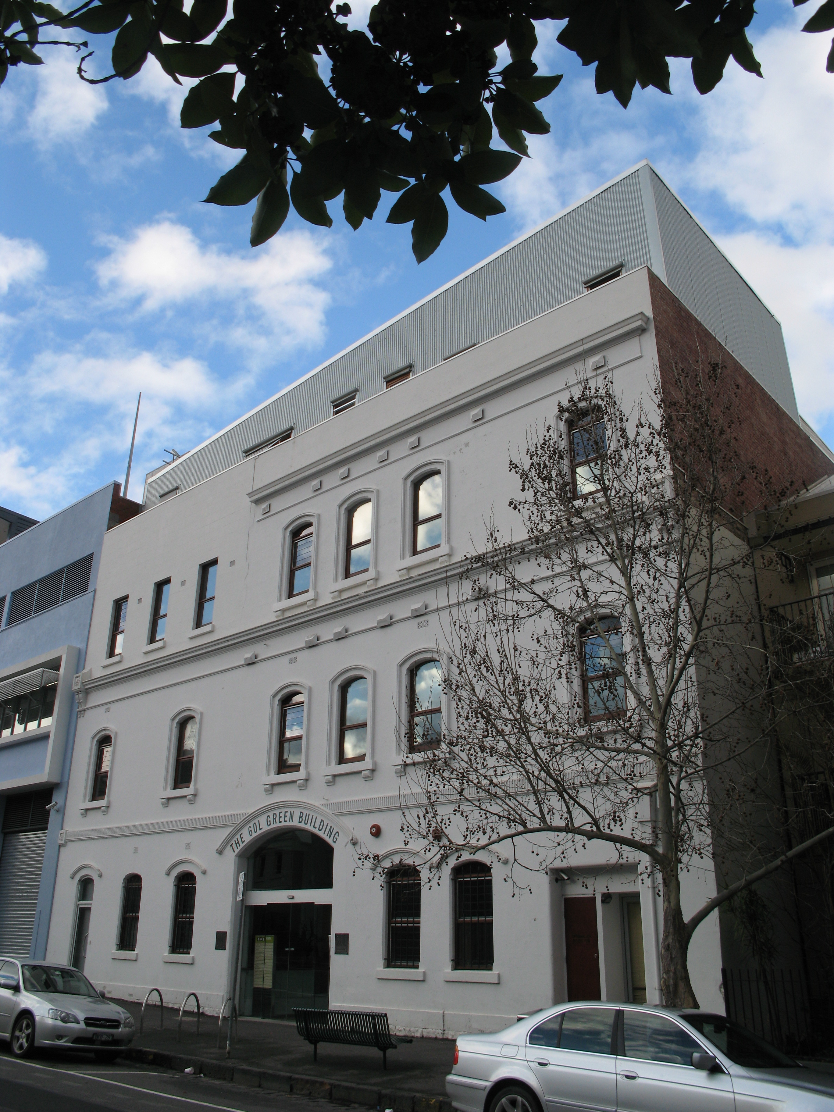 The original facade of the 60L Green Building in Carlton, Melbourne, Australia. Photo taken by Nick carson in September 2010.